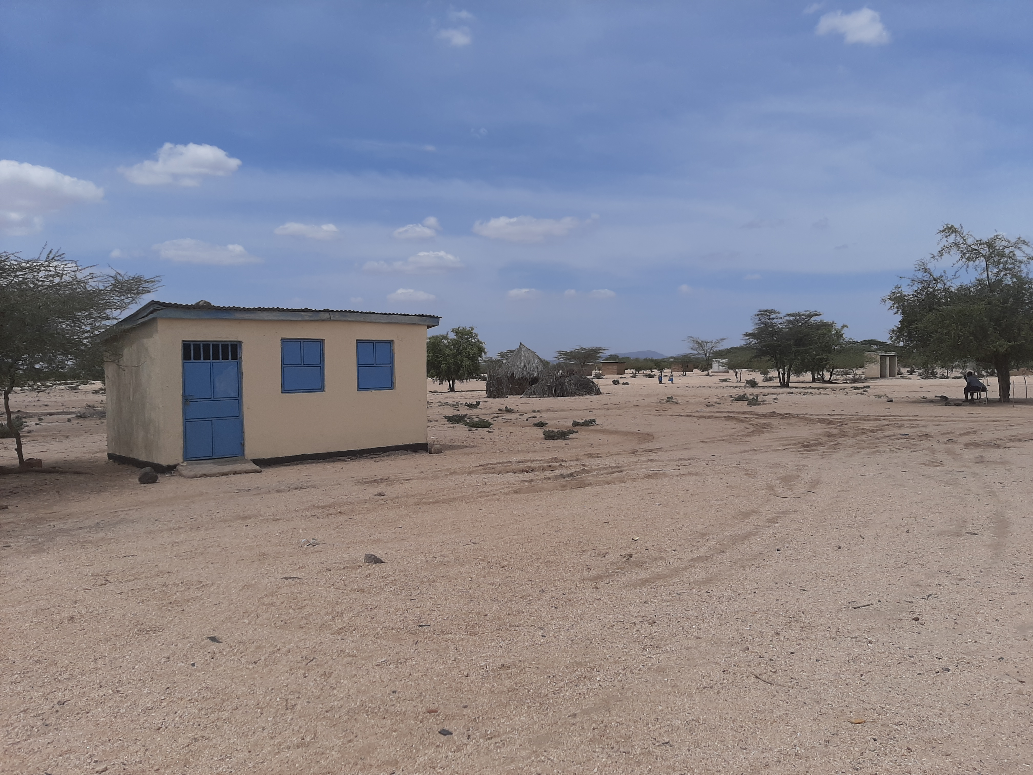 This is an image with the theme "Africa on the Move or Transport" from: Kenya